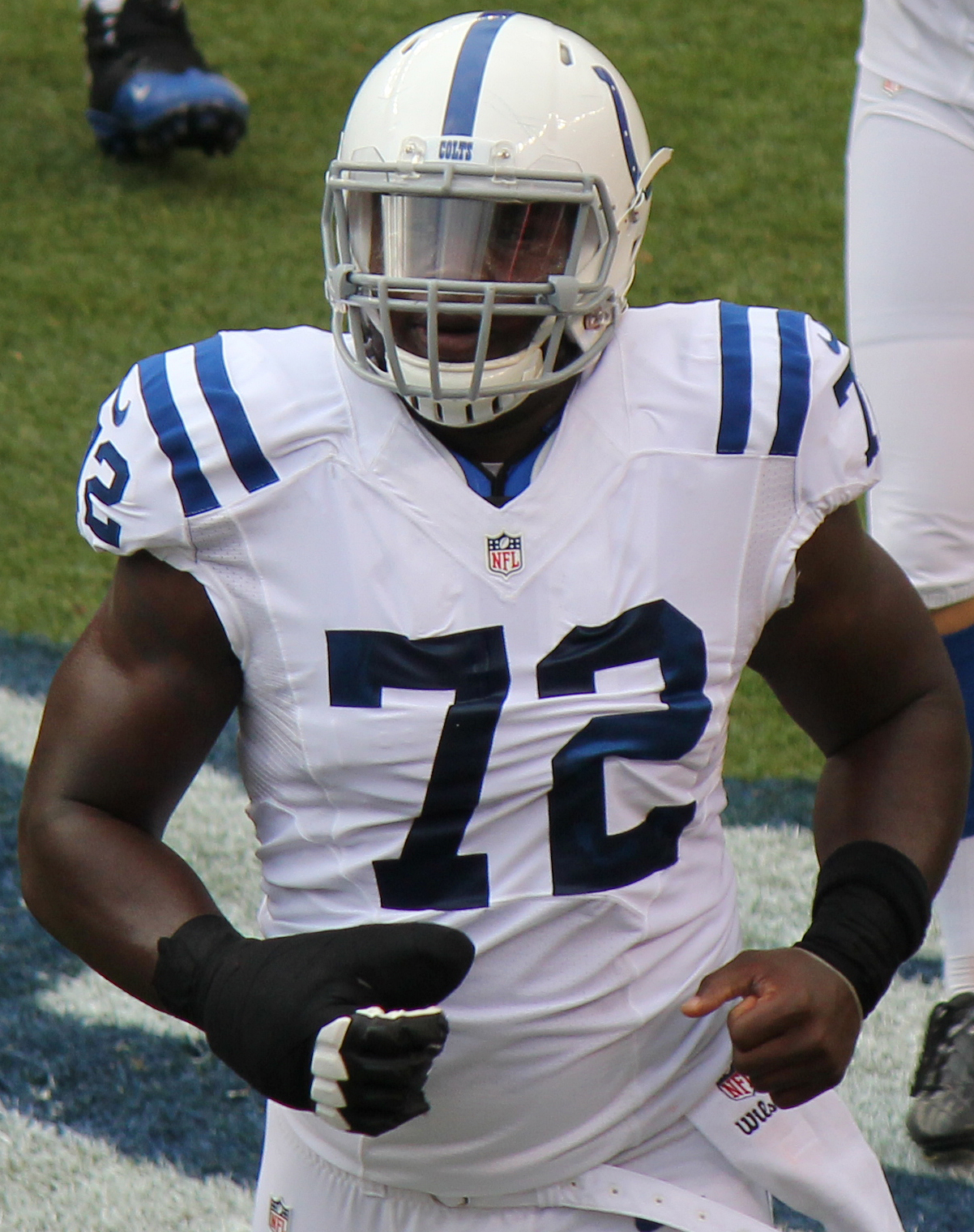 Jonotthan Harrison, a player on the National Football League.